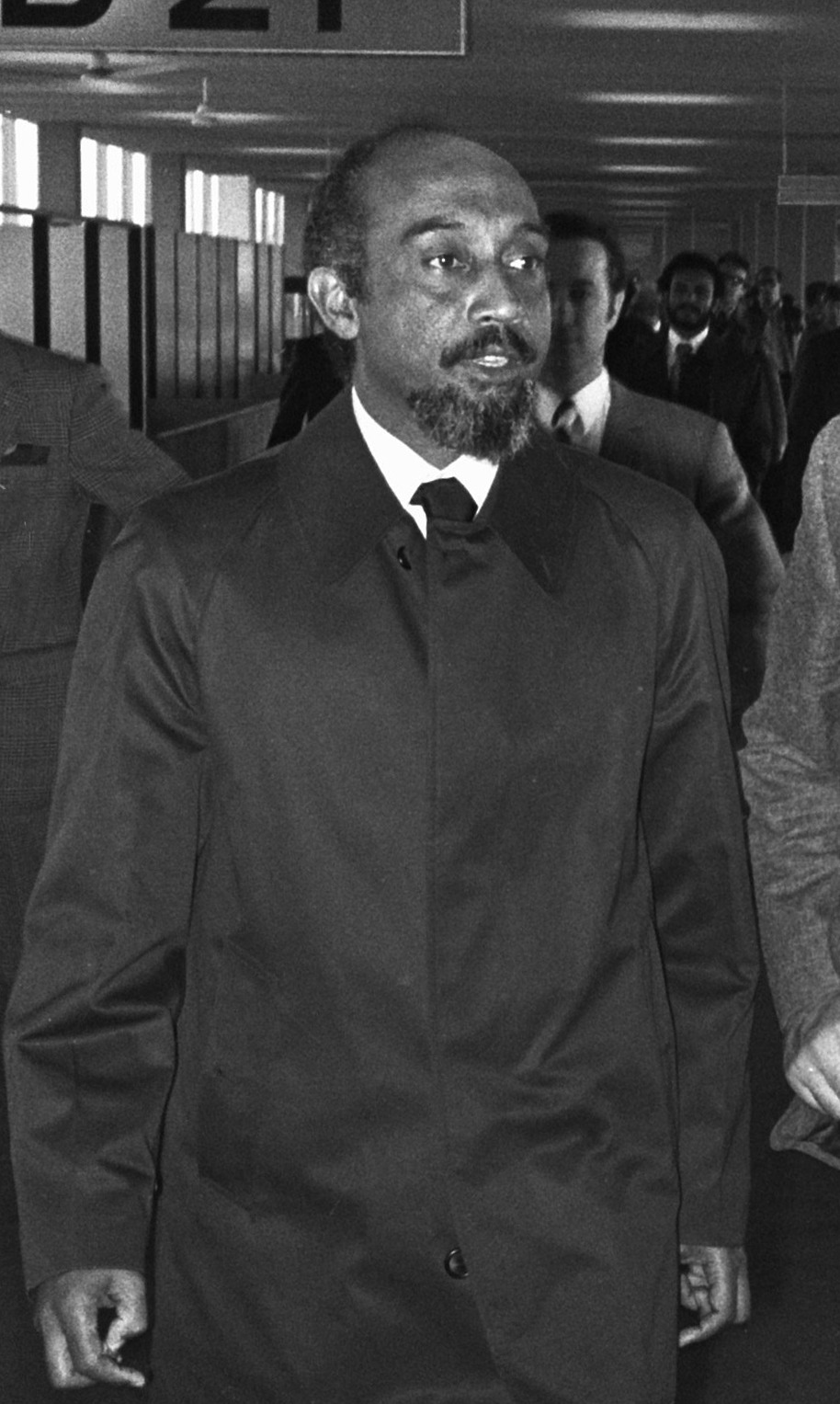 Jan Pronk, Dutch minister for development politics, welcomes Marcelino dos Santos, vice-president of the Mozambican FRELIMO, at Schiphol airport